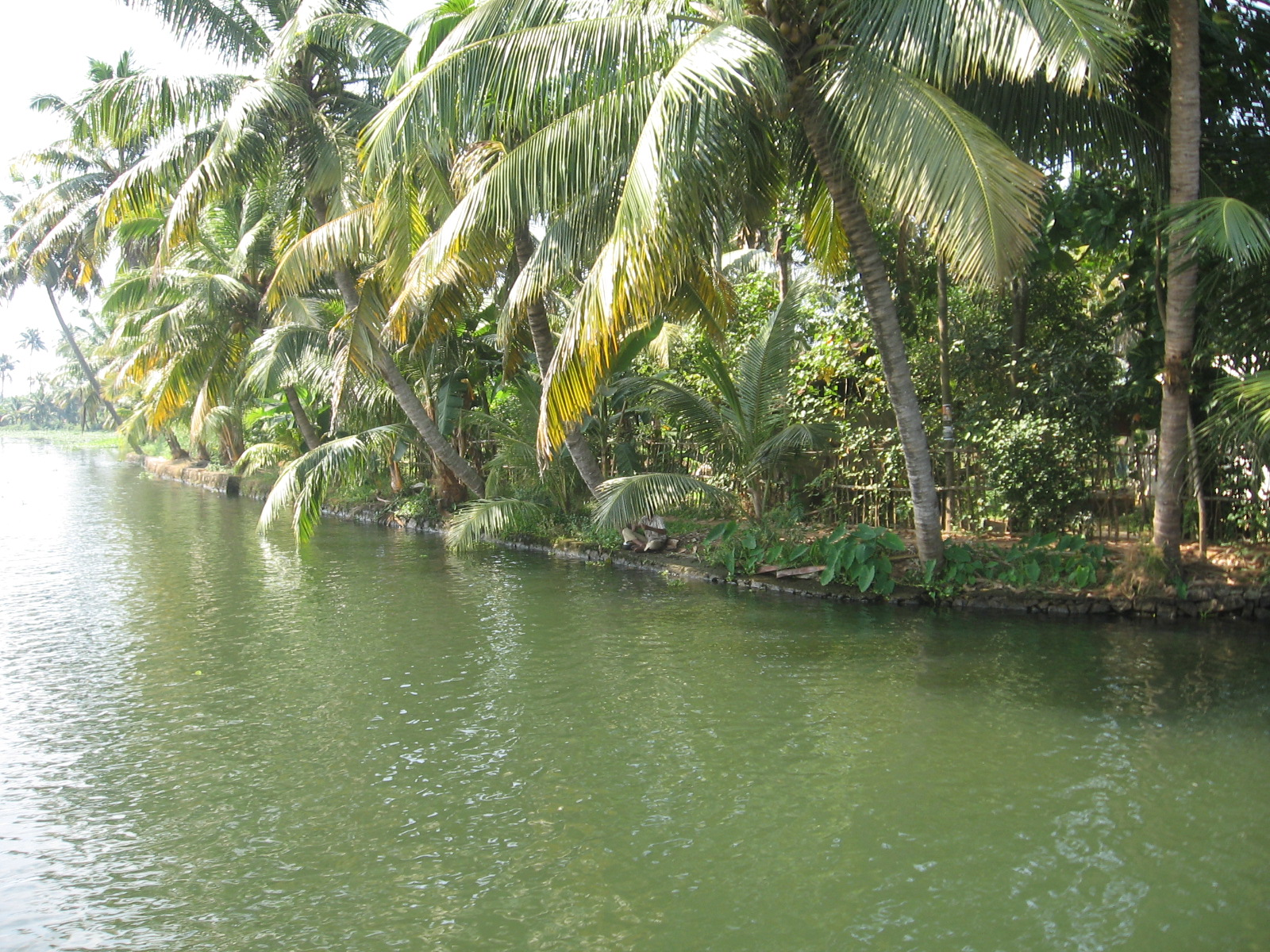 Kerala Backwaters in the Kuttanad region